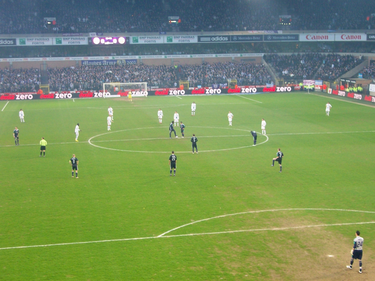 RSC Anderlecht vs. Club Brugge (April 3, 2010) Play-Off I (final score: 2-2)